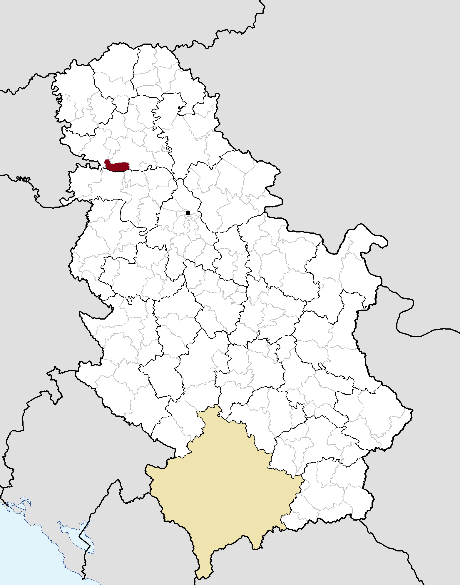 Municipal location in Serbia